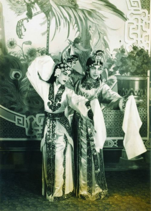 「覺先聲劇團」薛覺先、上海妹於普慶戲院演出《西施》舞台劇照, 1939年 A scene from the opera The Eternal Beauty Sai Sze, performed by the Kok Sin Sing Opera Troupe at the Astor Theatre, 1939.